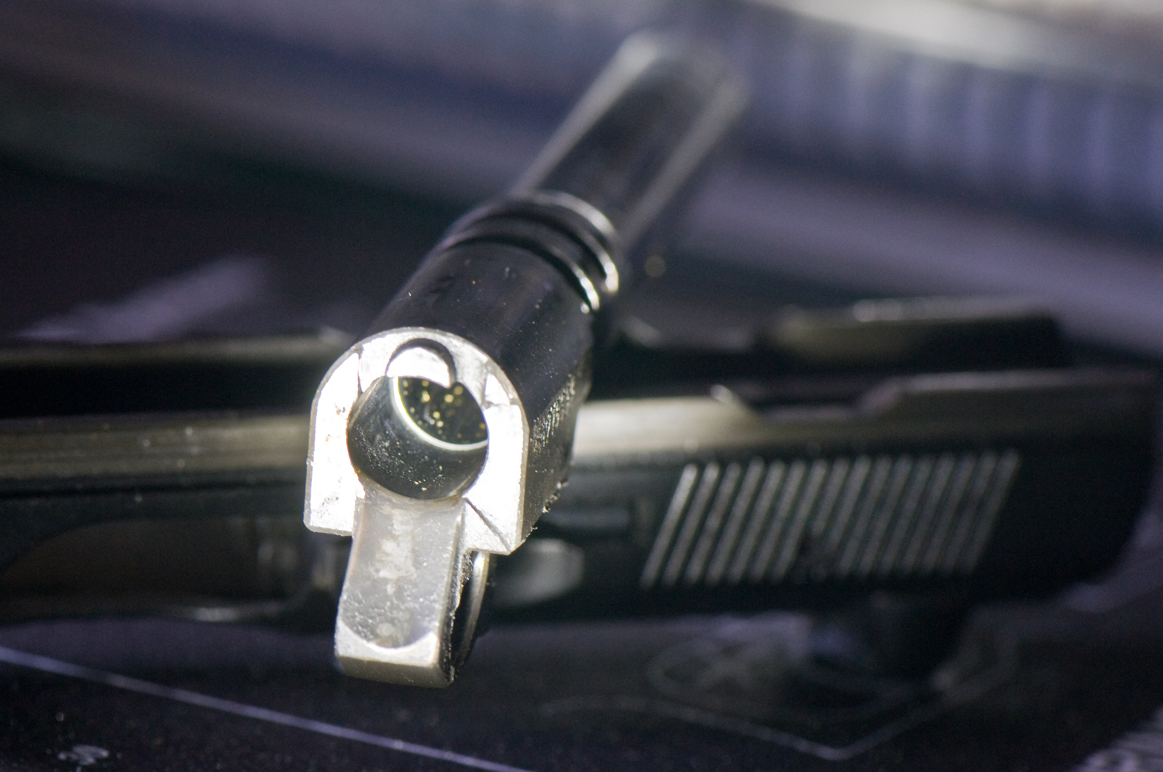 CZ-75B 9mm pistol dirty feed barrel and feed ramp after 400+ rounds fired on a day.